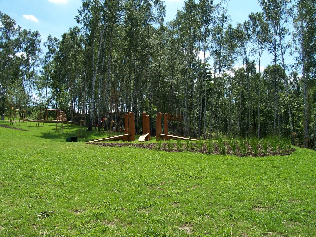 Zoo Ostrava, Sun hayfield